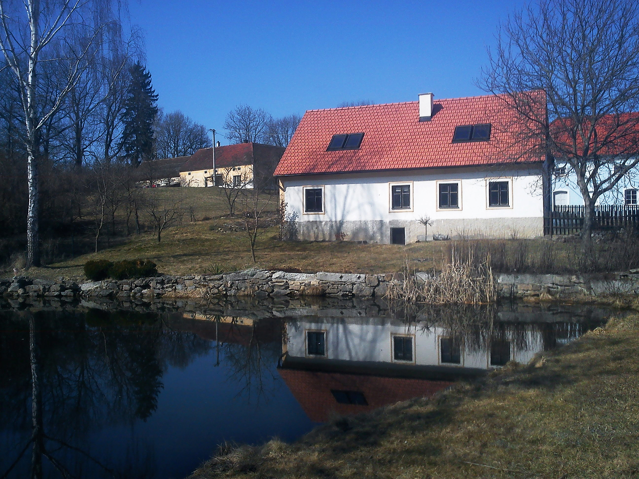 Pond and house No 15 in the village of Pořešinec, part of the town of Kaplice, South Bohemian Region, Czech Republic. Česky: Rybník a dům č.p. 15 ve vsi Pořešinec, části města Kaplice v Jihočeském kraji.